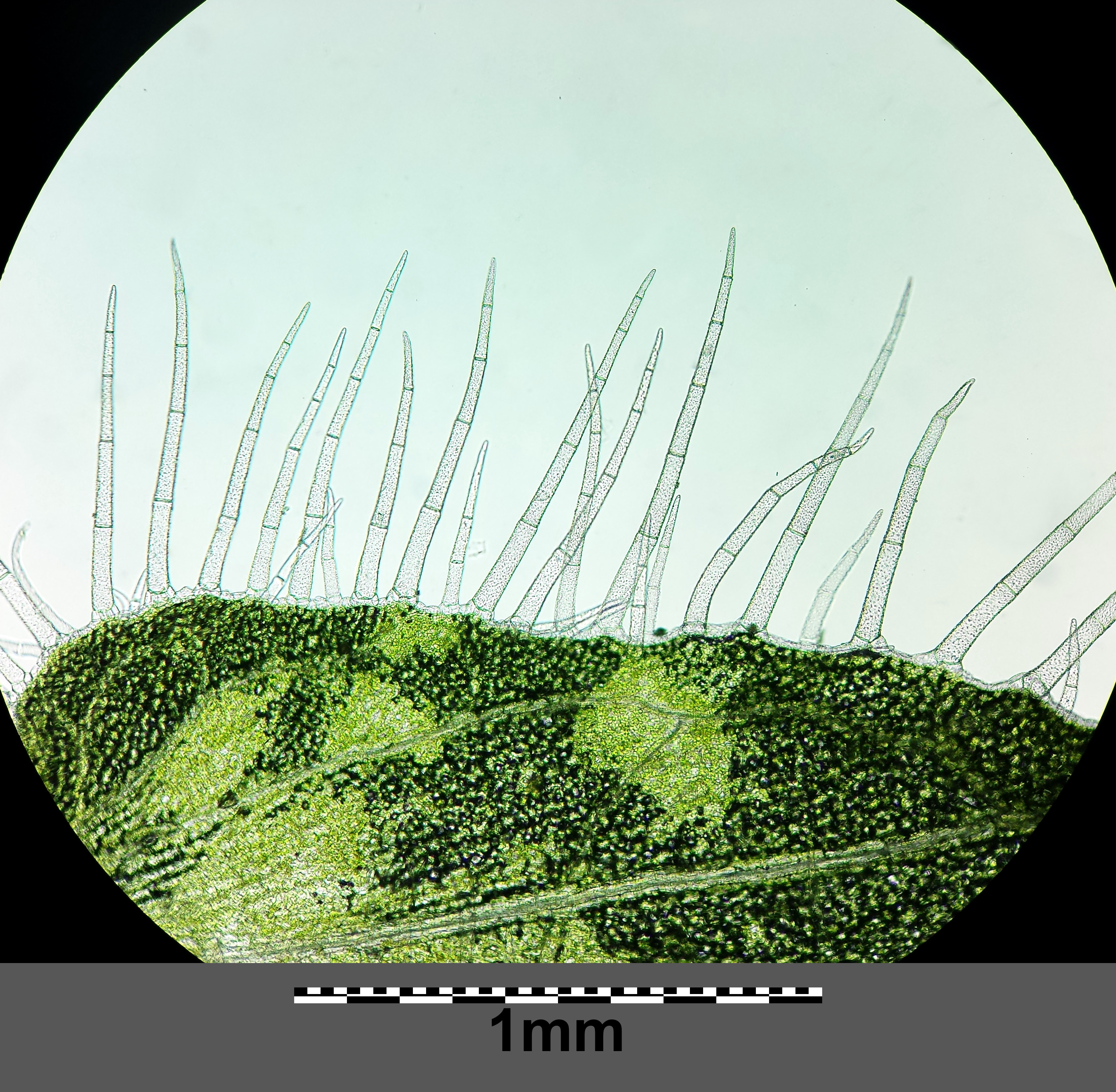 Border of a sepal with hairs Taxonym: Veronica sublobata ss Fischer et al. EfÖLS 2008 ISBN 978-3-85474-187-9 Location: Ferchenbauergasse, Vienna-Floridsdorf - ca. 160 m a.s.l. Habitat: flower bed